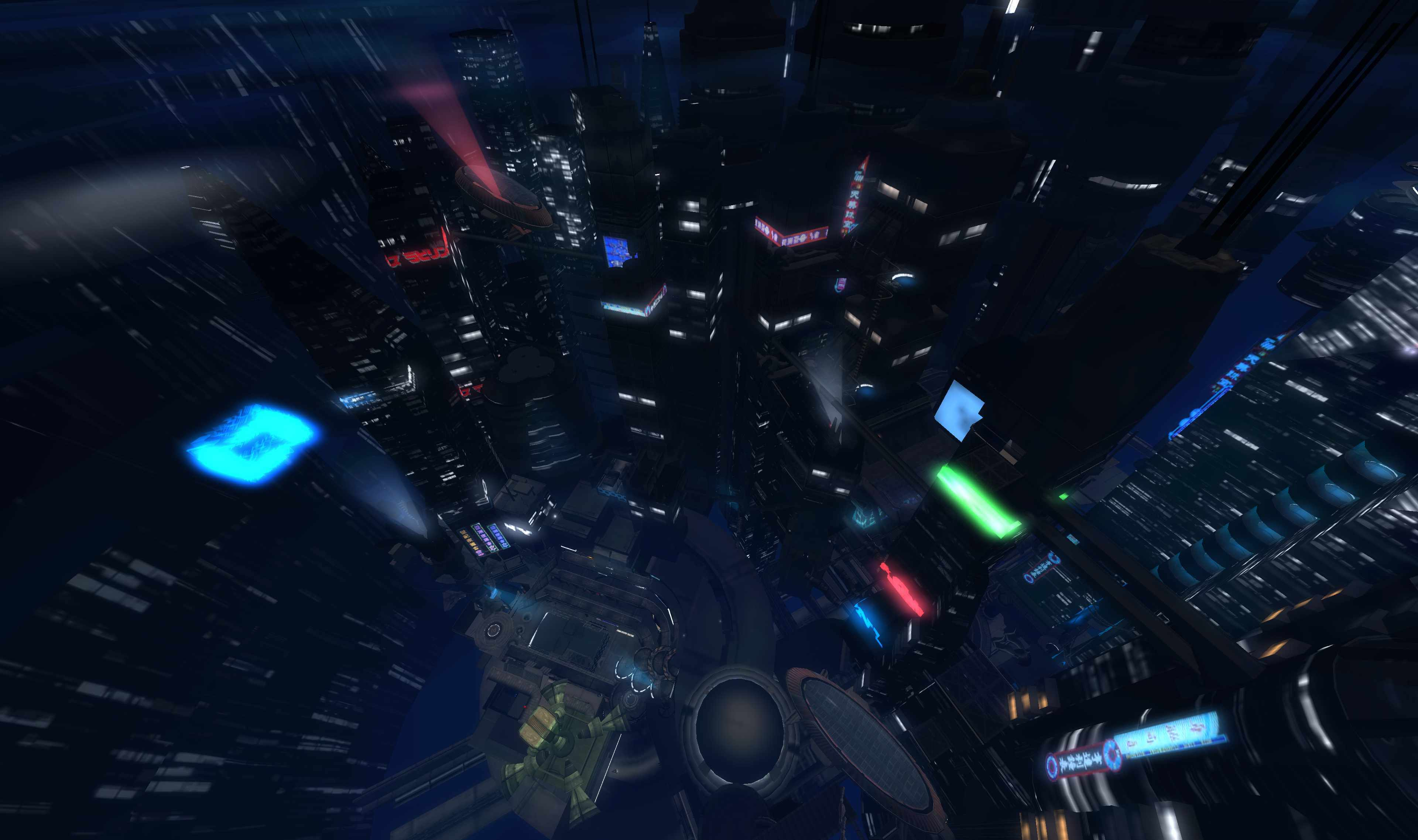 Posted by Second Life Resident Torley Olmstead. Visit INSILICO SOUTH.